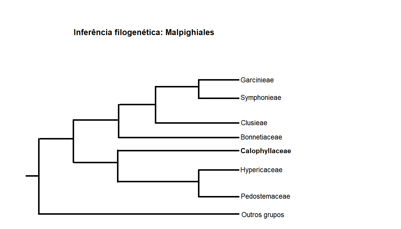 Phylogenetic inference of clusioides clade (Malpighiales) proposed by Ruhfel et al. 2013